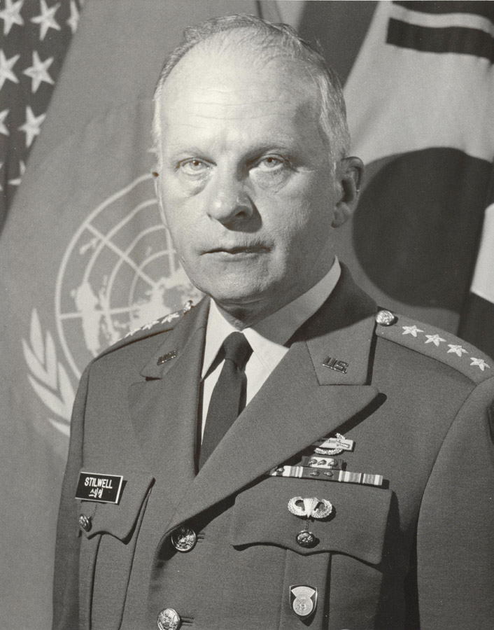 General Richard G. Stilwell from [1]